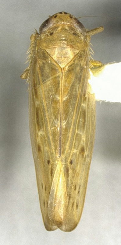 Abrus xishuiensis. Male habitus, dorsal view.